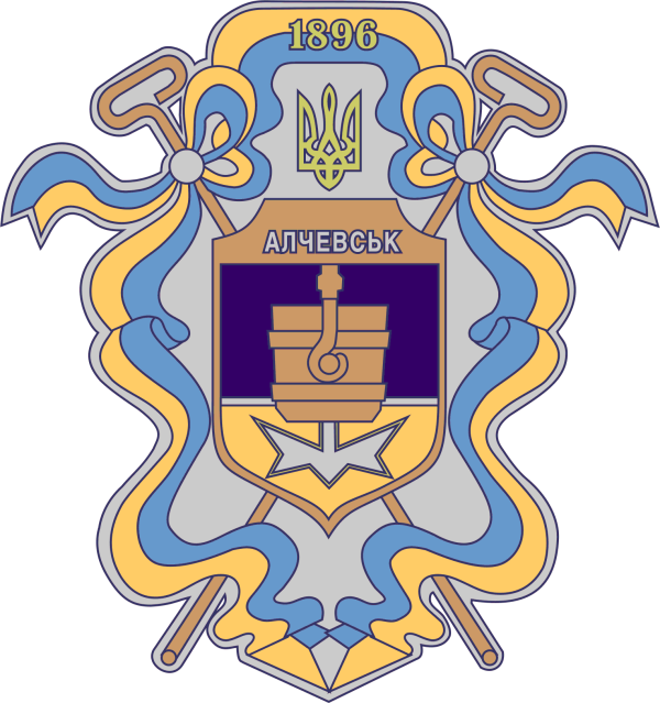 Coat of arms of Alchevsk, Ukraine